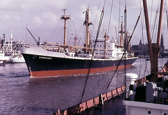 MV Simonskerk of the United Netherlands Navigation Company on the river Scheldt. - In the background Antwerp with the cathedral to the Virgin Mary - 1963